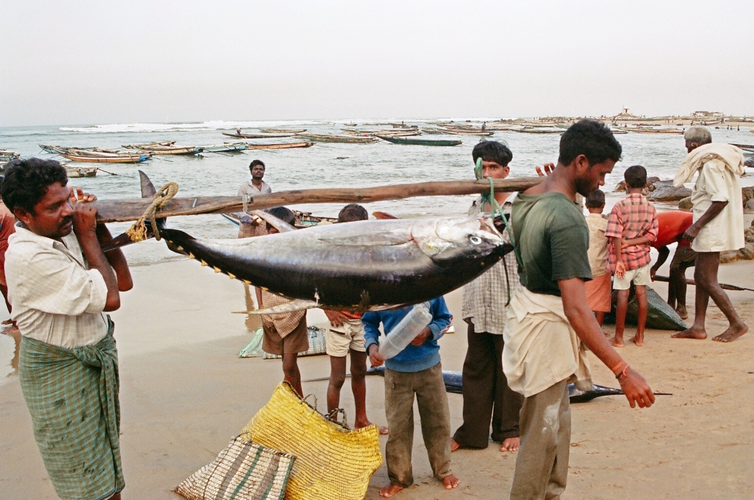 Vishakapatnam, India. I took this picture in mid 2004. This picture was taken in Lawson's Bay Colony, a neighborhood along the north coast of Vishakapatnam. Fishermen disappear in these boats for days at a time, returning with tuna and swordfish, which they load into autorickshaws, and sell to the local restaurants and hotels.